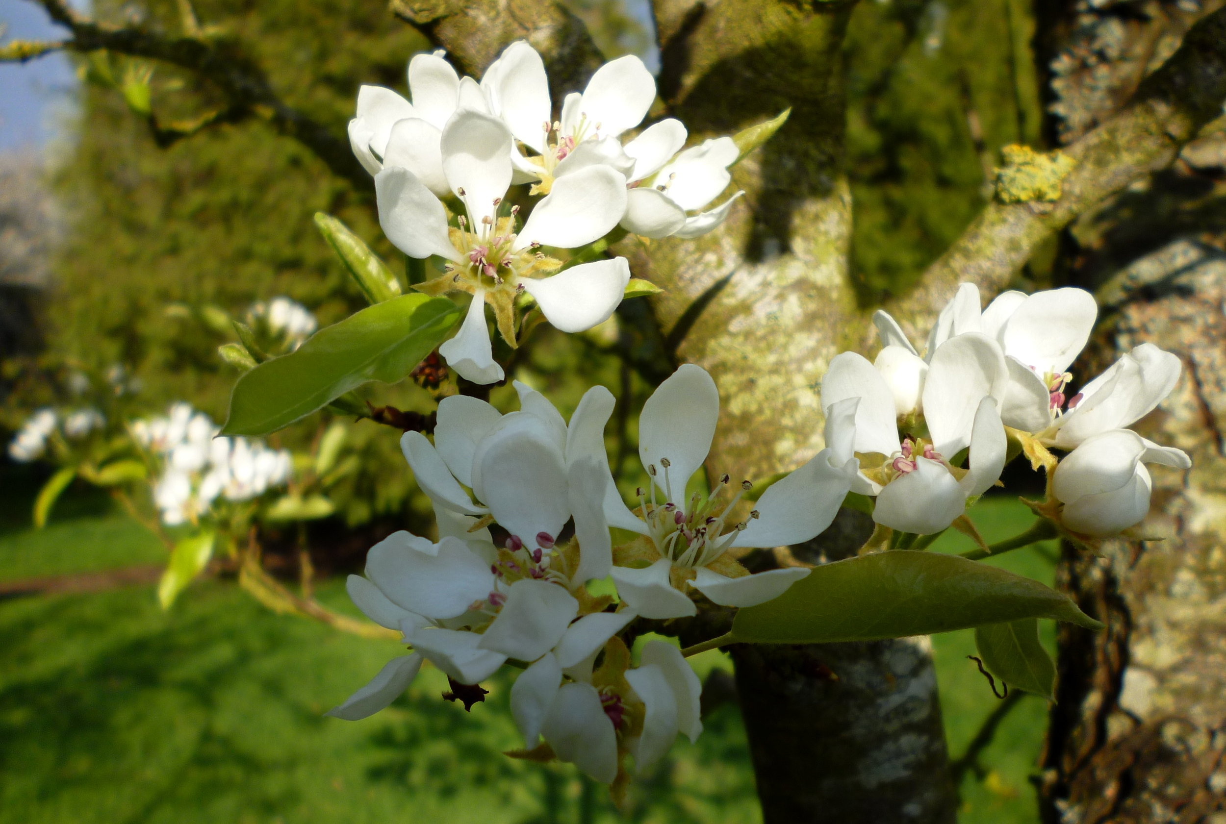 Blossoms on a fruit tree in Morsan, France.